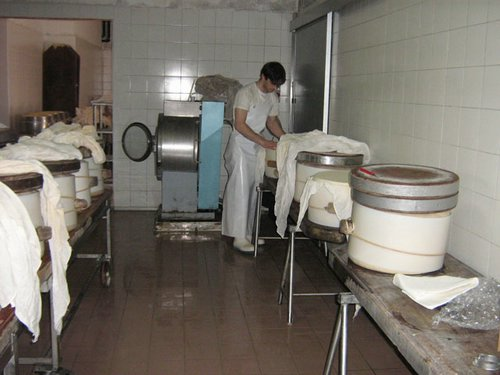 During the manufacture of Parmesan-Reggiano cheese, it is bandaged to assist with its molding.